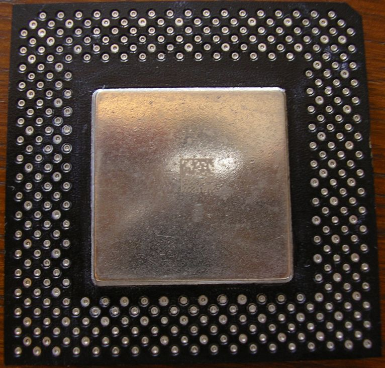 Top of a Socket 370 Celeron 366. Photograph taken by me on Saturday, January 21, 2006.